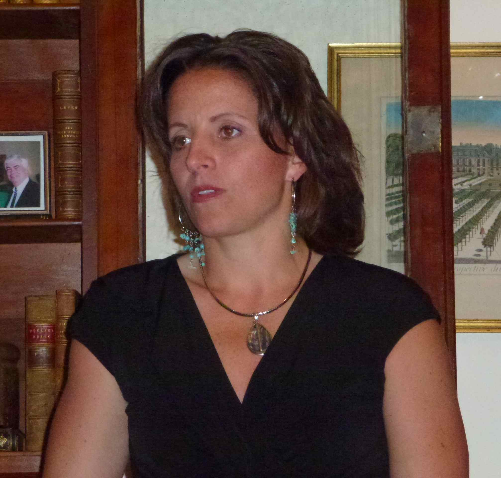 Jen Rizzotti at Governor's Mansion, at reception honoring her induction into the Women's basketball of Fame